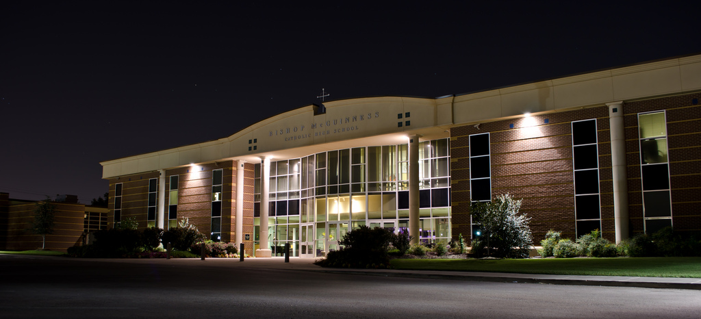 New front entry of the school